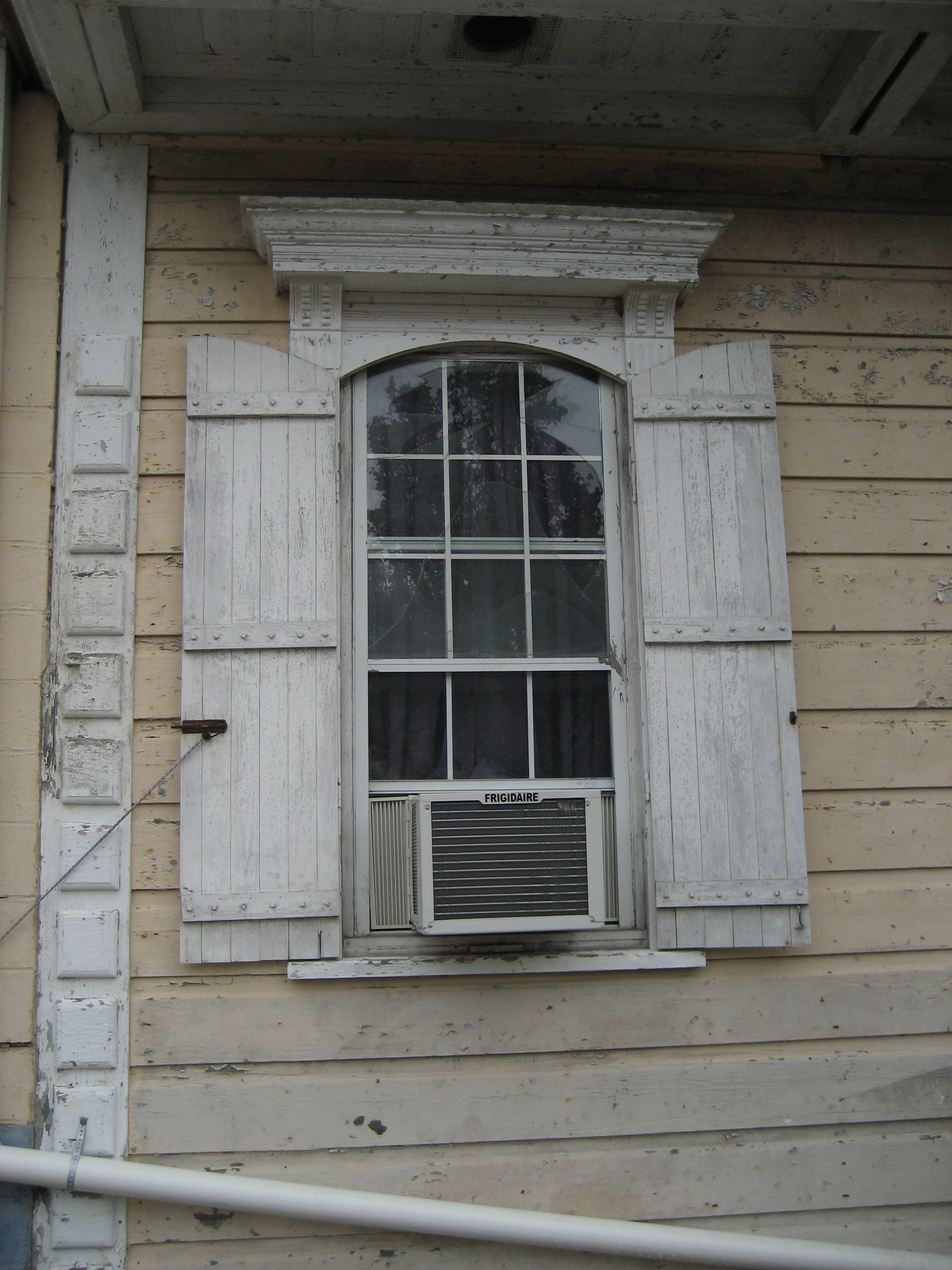 New Orleans: Window with air conditioner, house in Bywater neighborhood